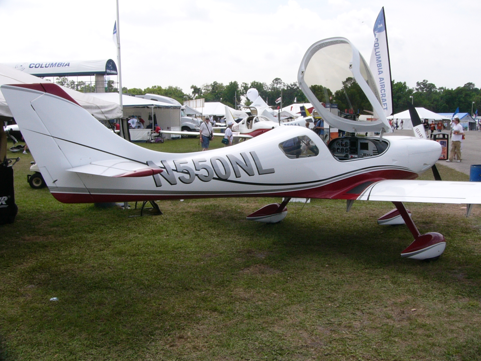 Lancair Legacy FG at Sun 'n Fun 2006